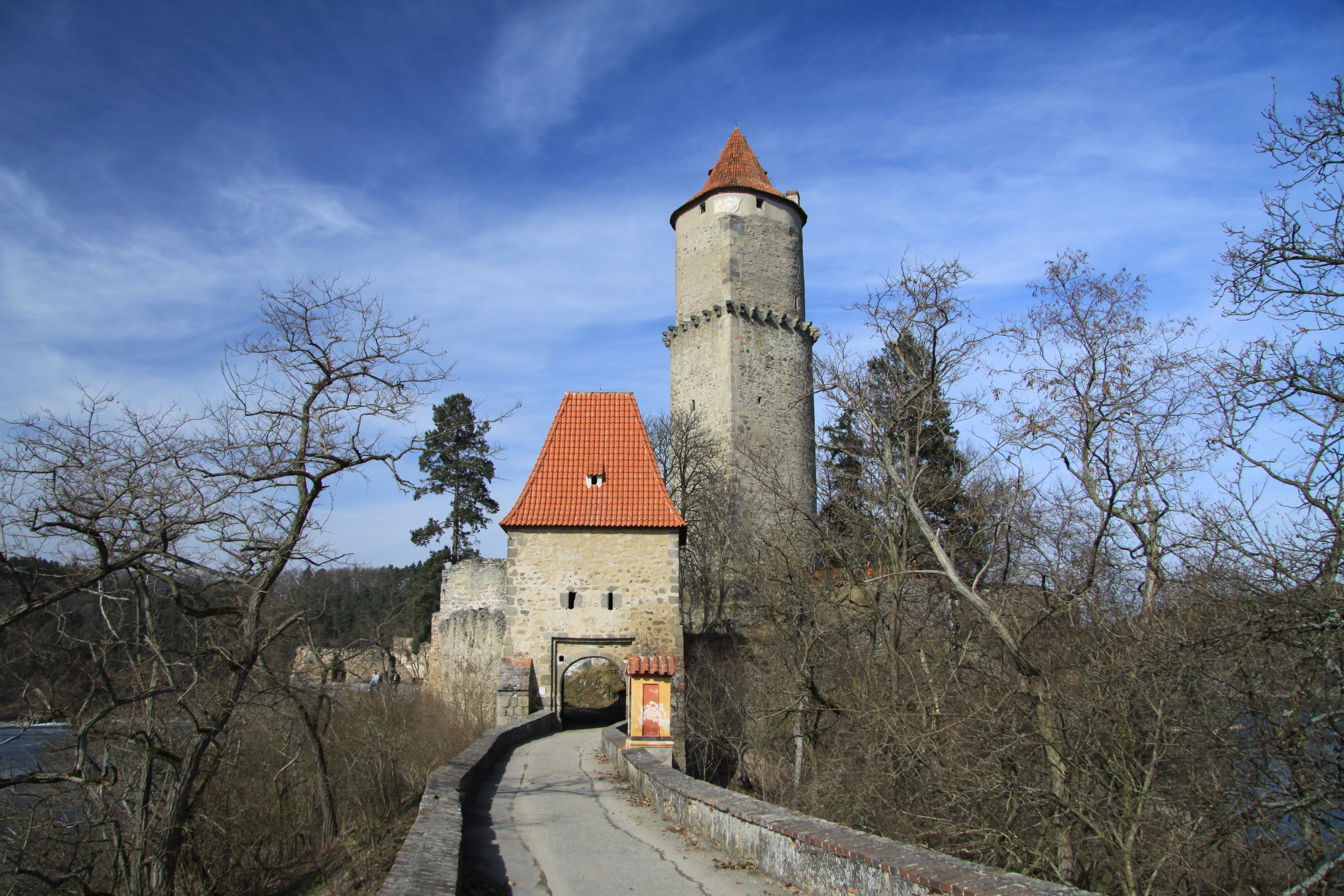 Zvíkov castle in Pisek District, Czech Republic.